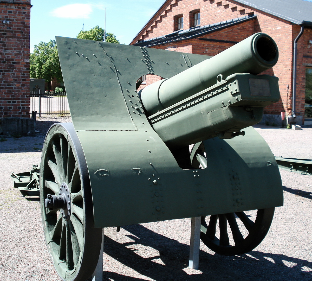 Russian/Soviet 152 mm howitzer Model 1909-30 Schneider (1526 dm krepostnaja gaubitsa sistemy Schneidera obr. 1909-1930) , displayed in Hämeenlinna Artillery Museum. Photo taken on June 18, 2006. Source: Photo by me, User:Balcer.